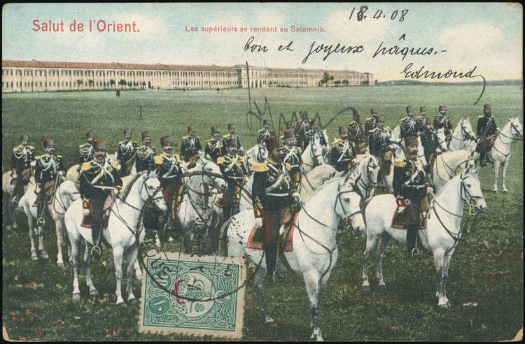 Ottoman Military Camp Later Pavlos Melas Military Camp